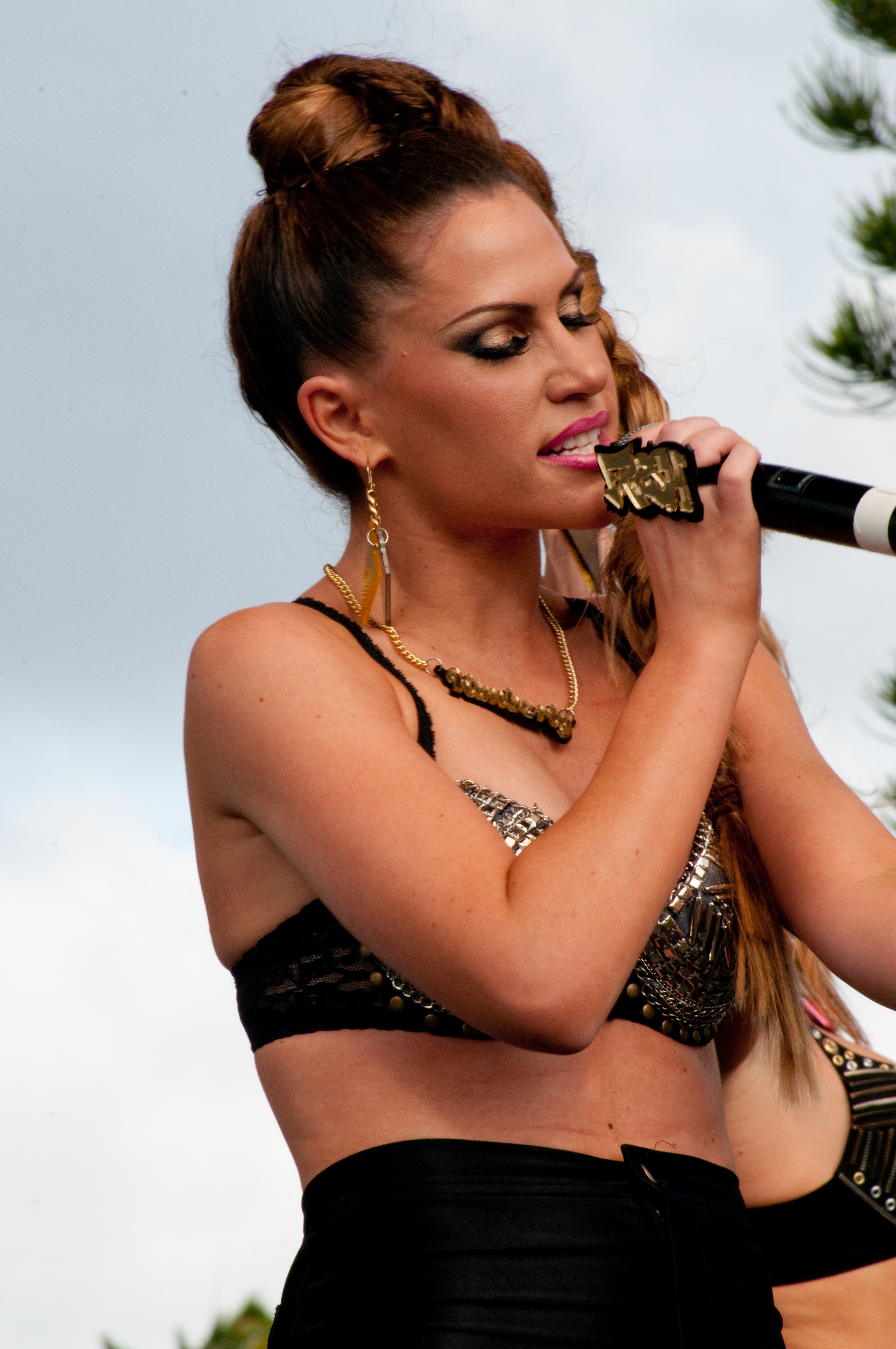 Kimberly Cole sings to Marines and sailors at the "For the Leathernecks Comedy and Entertainment Tour" Oct. 21 at Marine Corps Base Hawaii.